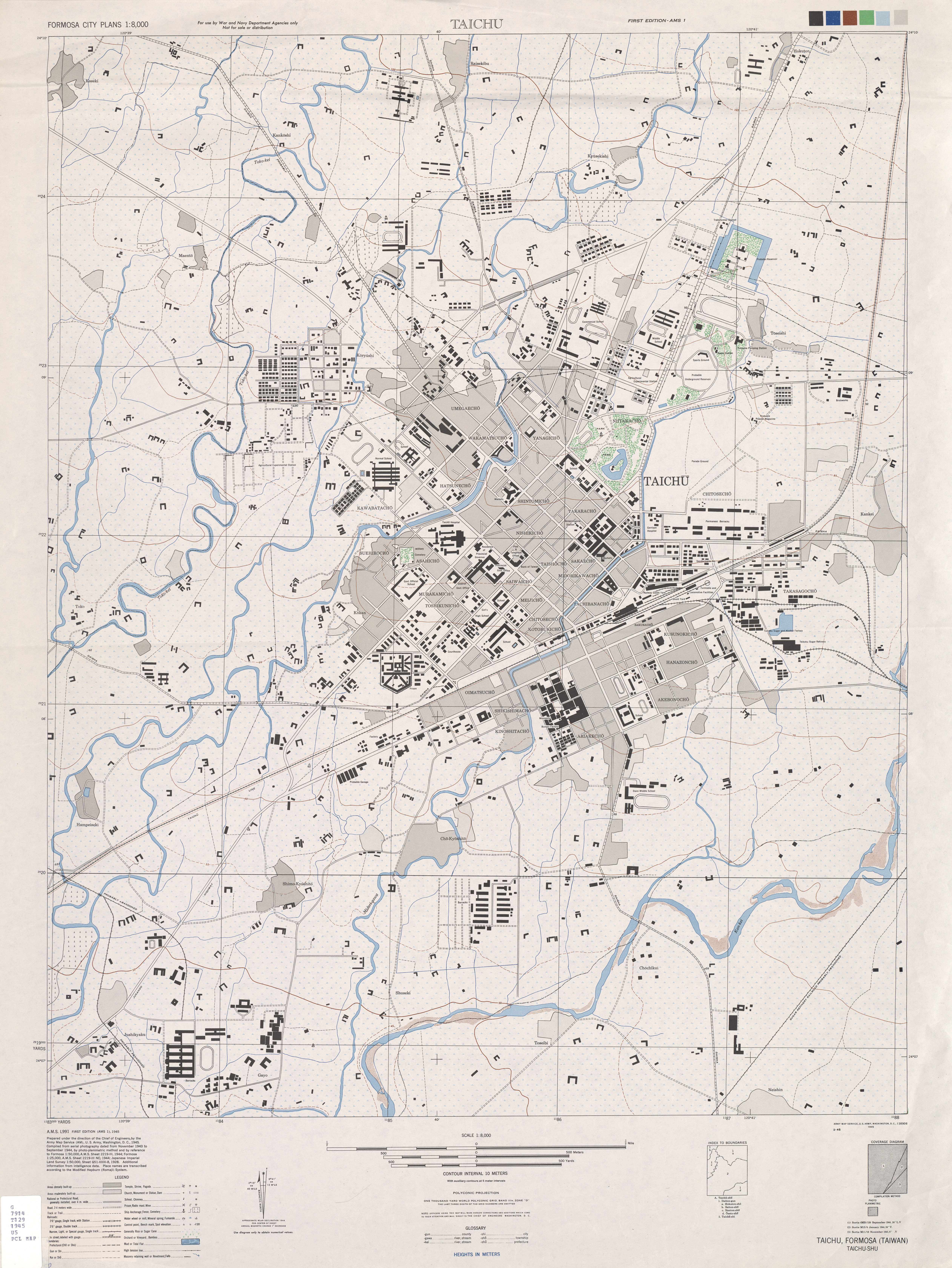 A map of Taichung City in 1940s. It's made by the U.S. Army./美軍於太平洋戰爭時期，所繪的台中市地圖。